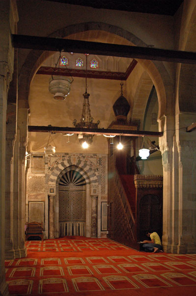 Al-Azhar Mosque. Cairo. Egypt